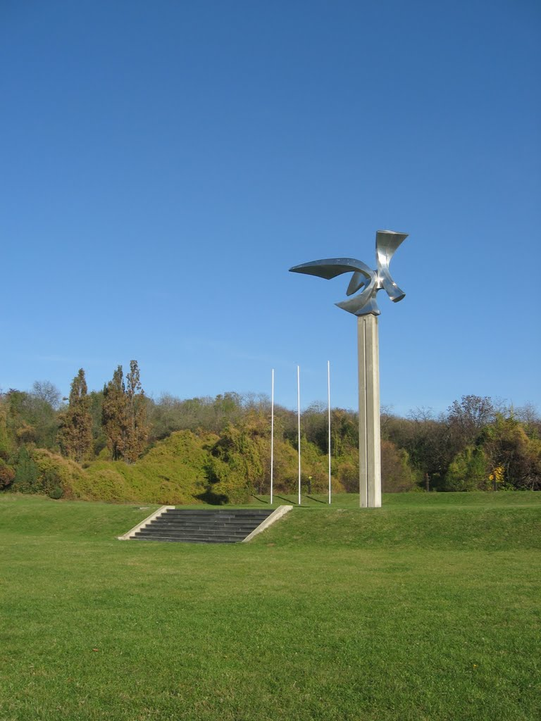 Memorial Park Jajinci